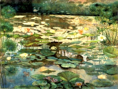 Botanical Garden.